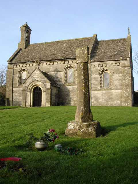 Church of England chapel of ease at Tresham, Gloucestershire